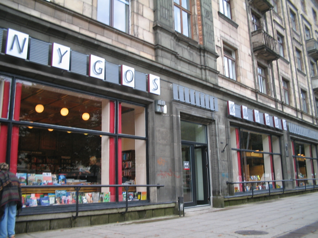 Main Bookstore, Kaunas (Lithuania).